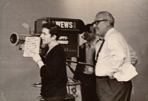 David Spero with his father, Herman, on the Upbeat show, WEWS-TV, 1964